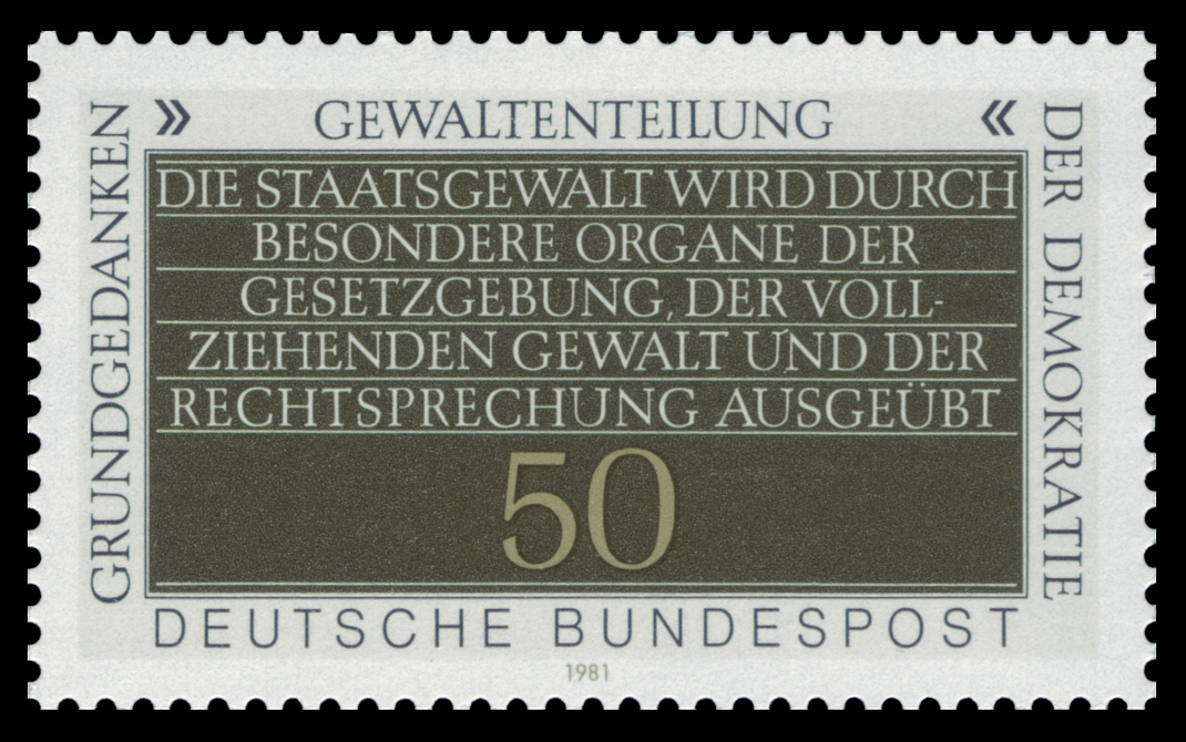 fundamental ideas of democracy